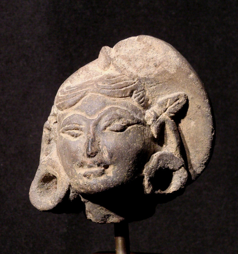 Although simply modeled, this head is very expressive and, although it is small (6 cm) the details can clearly be seen. She wears a head band and her hair, piled on the left is also tied bt the scarf. There is a leaf over her right ear. Her ear rings are large and tubular. The clay is dark fired. Collection of Balique Arts of Indonesia. Ht 6 x 6 x 4.2